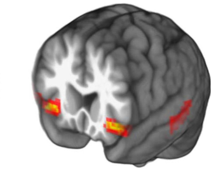 Cingulo-opercular activity observed in response to speech that is acoustically degraded in older adults